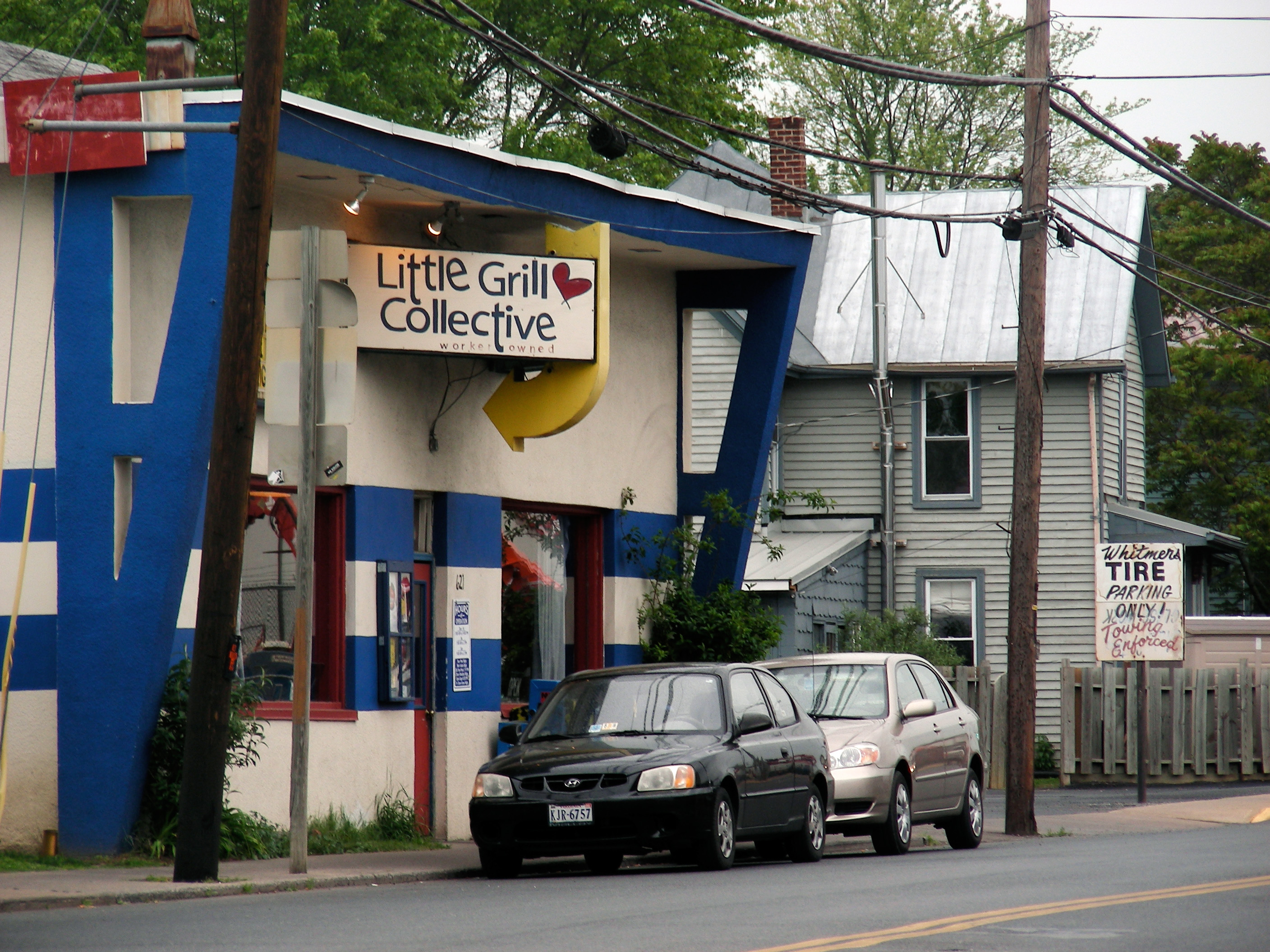 Little Grill Collective in Harrisonburg, Virginia from across Main Street on May 15, 2008.